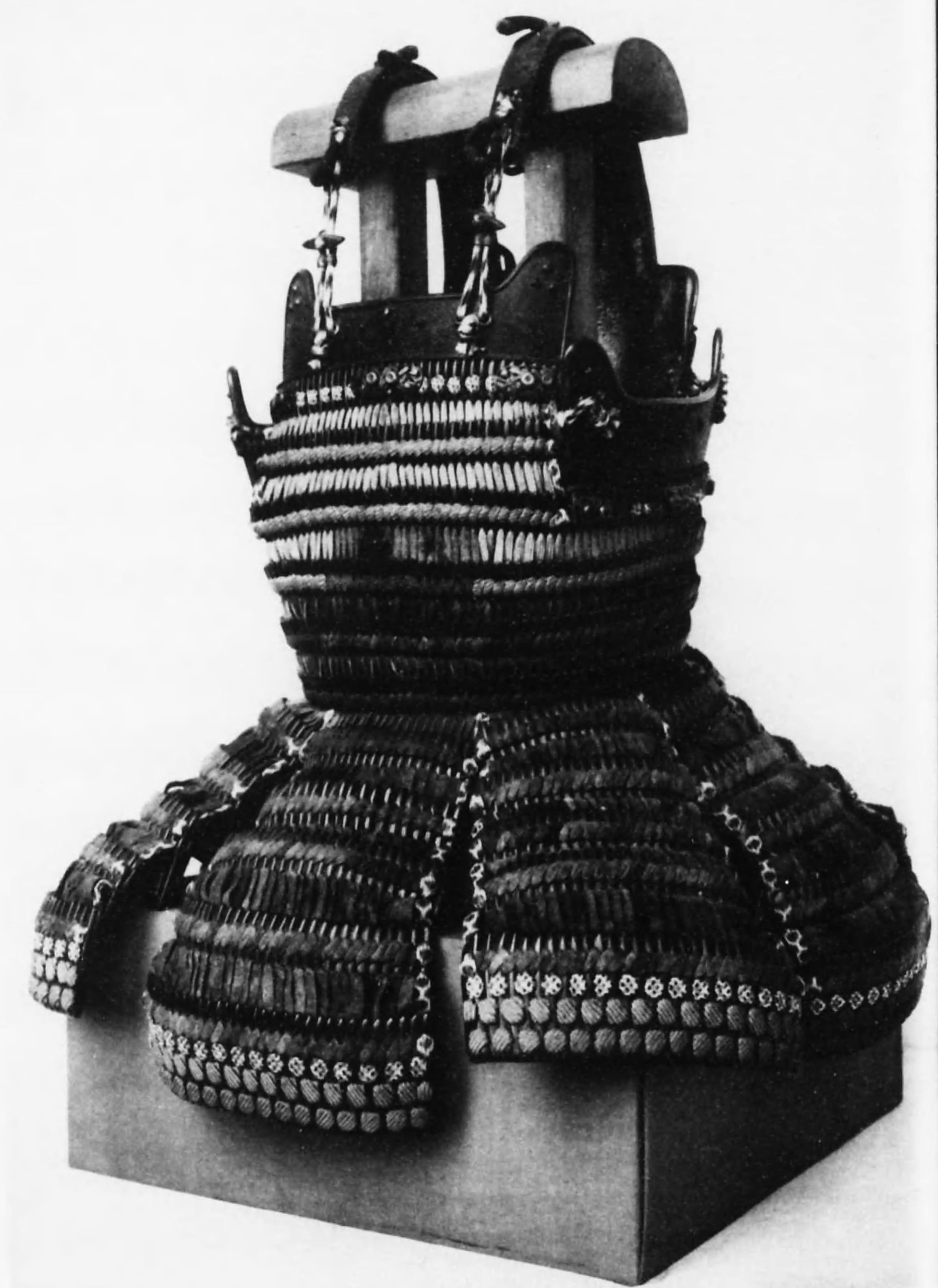 Ai-gawa Odoshi Kata-aka Haramaki made in Nambokucho period which is said that Kusunoki Masashige used, the collection of Kanshin-ji, Kawachinagano, Osaka prefecture. A Important Cultural Property of Japan.